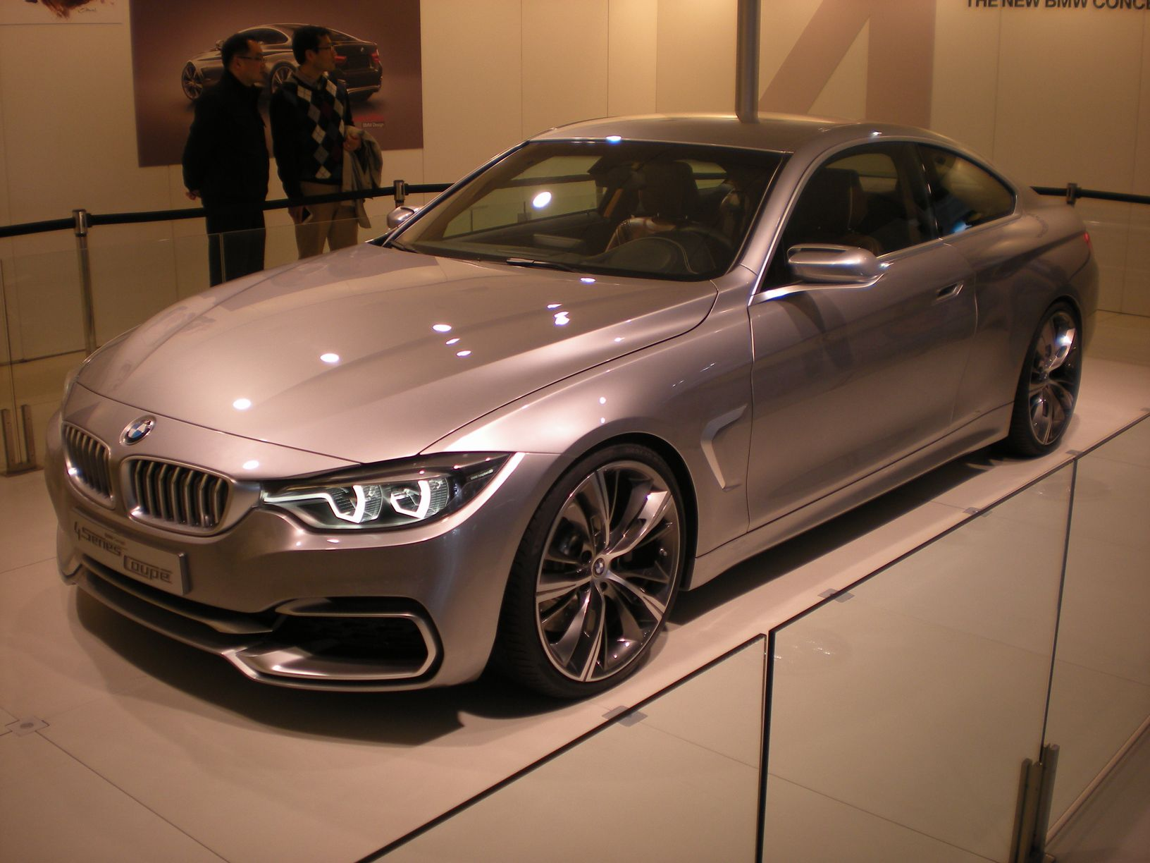 BMW 4Series Coupe